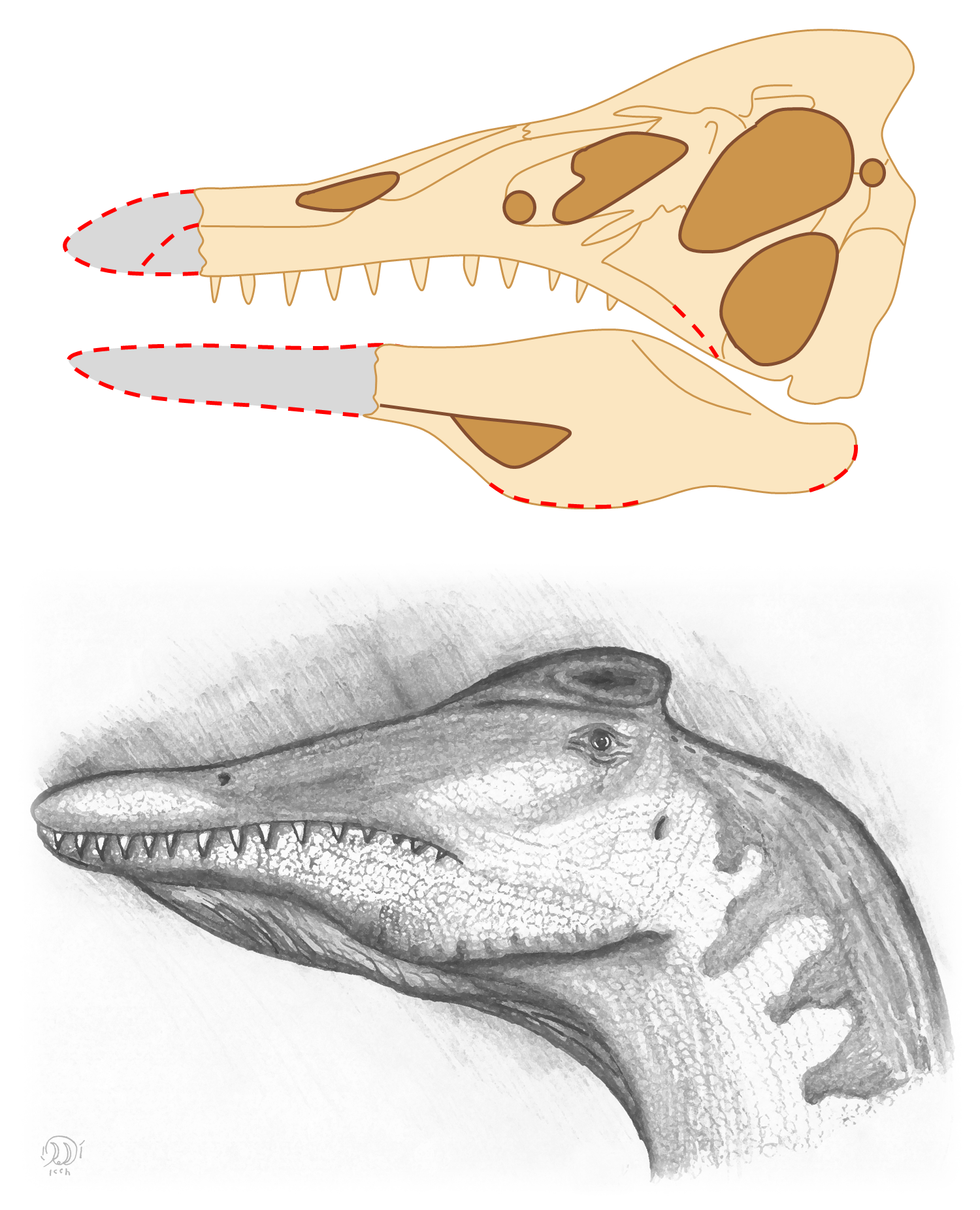 Skull diagram and life restoration of Irritator challengeri's head, based on the holotype skull as originally interpreted by Martill et al. (1996) [1] showing the "head crest" assumed from a fragment of indeterminate bone.